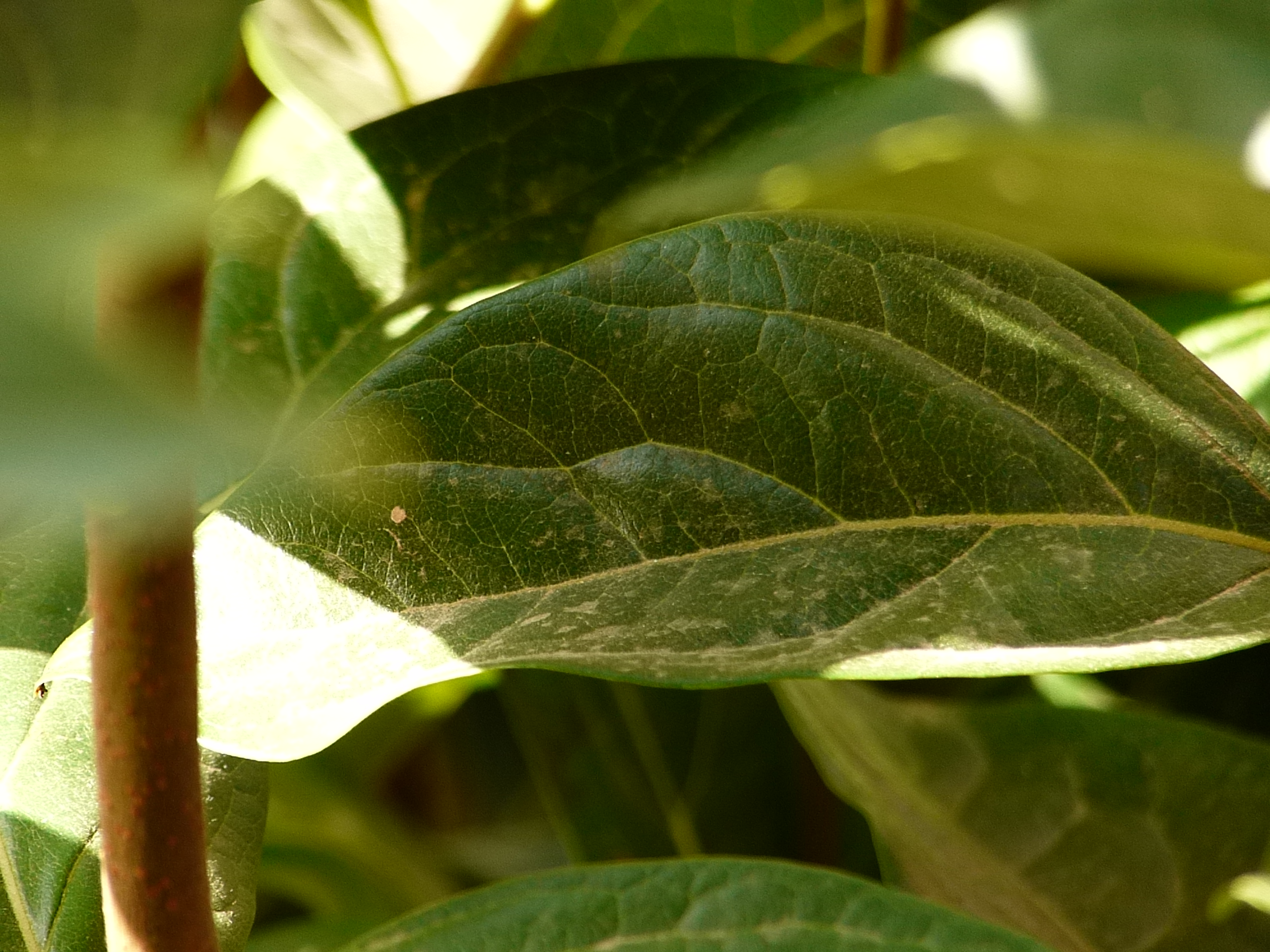 Diospyros kaki, leave, Seville, Spain, 2015